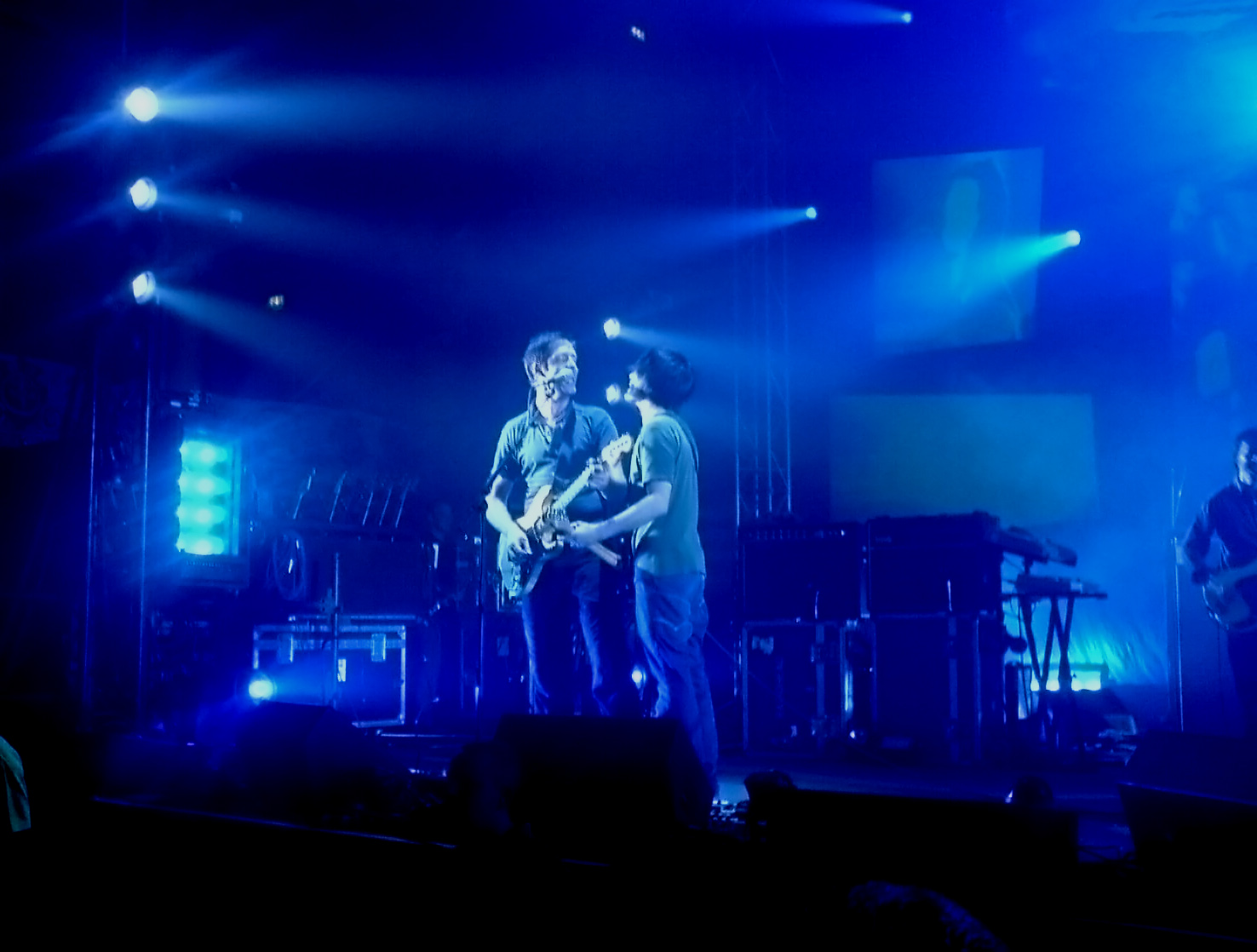 Radiohead Live@Blackpool, 12th May 2006 2: Left to right are Ed O'Brien and Jonny Greenwood